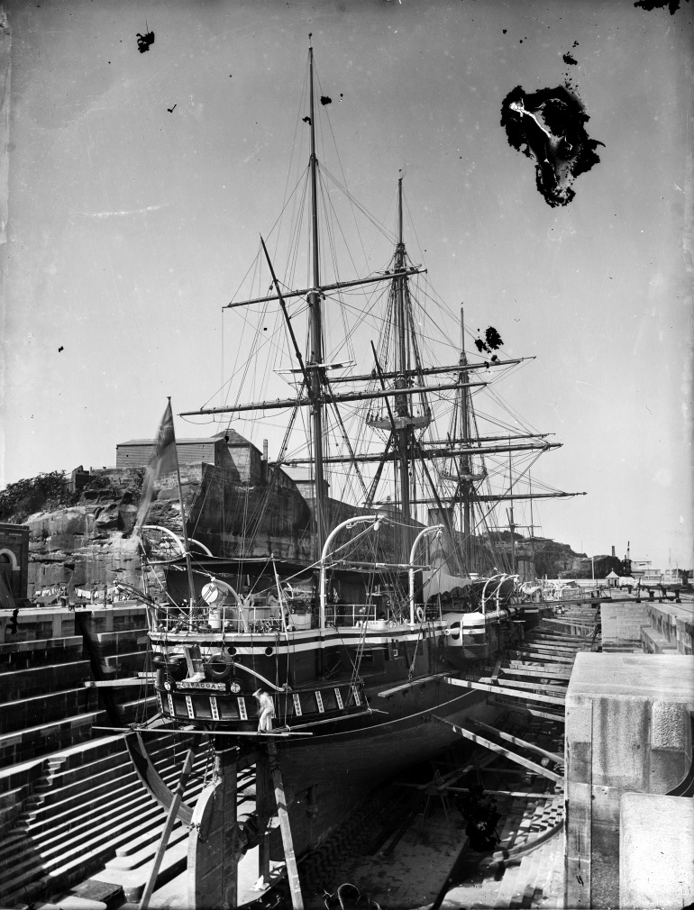 Photograph of British corvette HMS Curacoa in drydock in Sydney. Drydock could be Mort's dock or Fitzroy Dock at Cockatoo Island